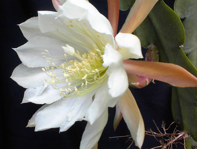 Epiphyllum crenatum Photo. Ulf Eliasson